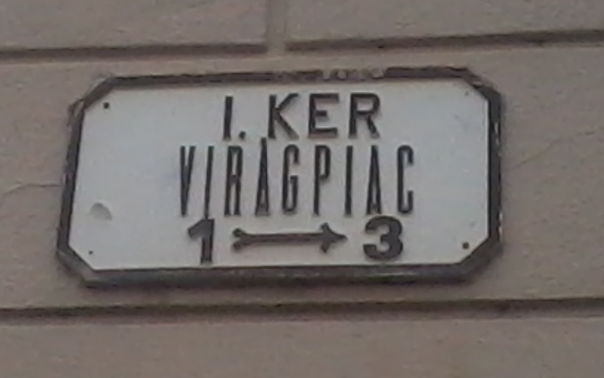 Street table in Győr – Hungary